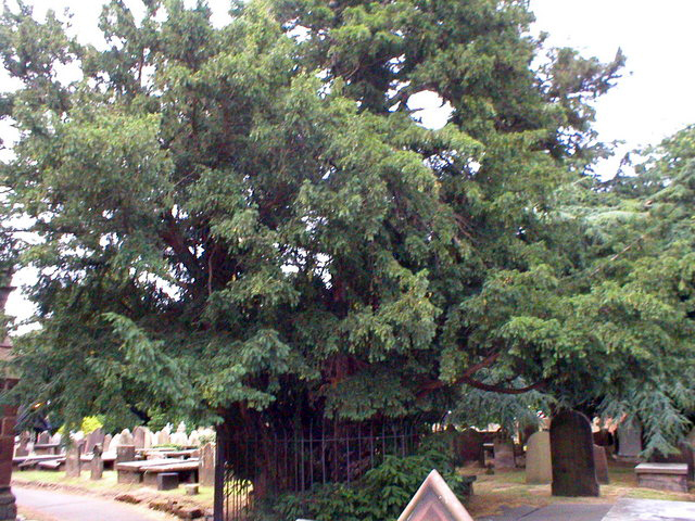 Photograph of yew tree in churchyard of St Mary's Church, Eastham